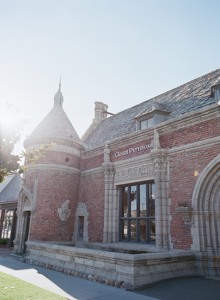 The Claire Pettibone Flagship Salon at the Heinsbergen Decorating Building at 7415 Beverly Boulevard, Los Angeles, CA 90036